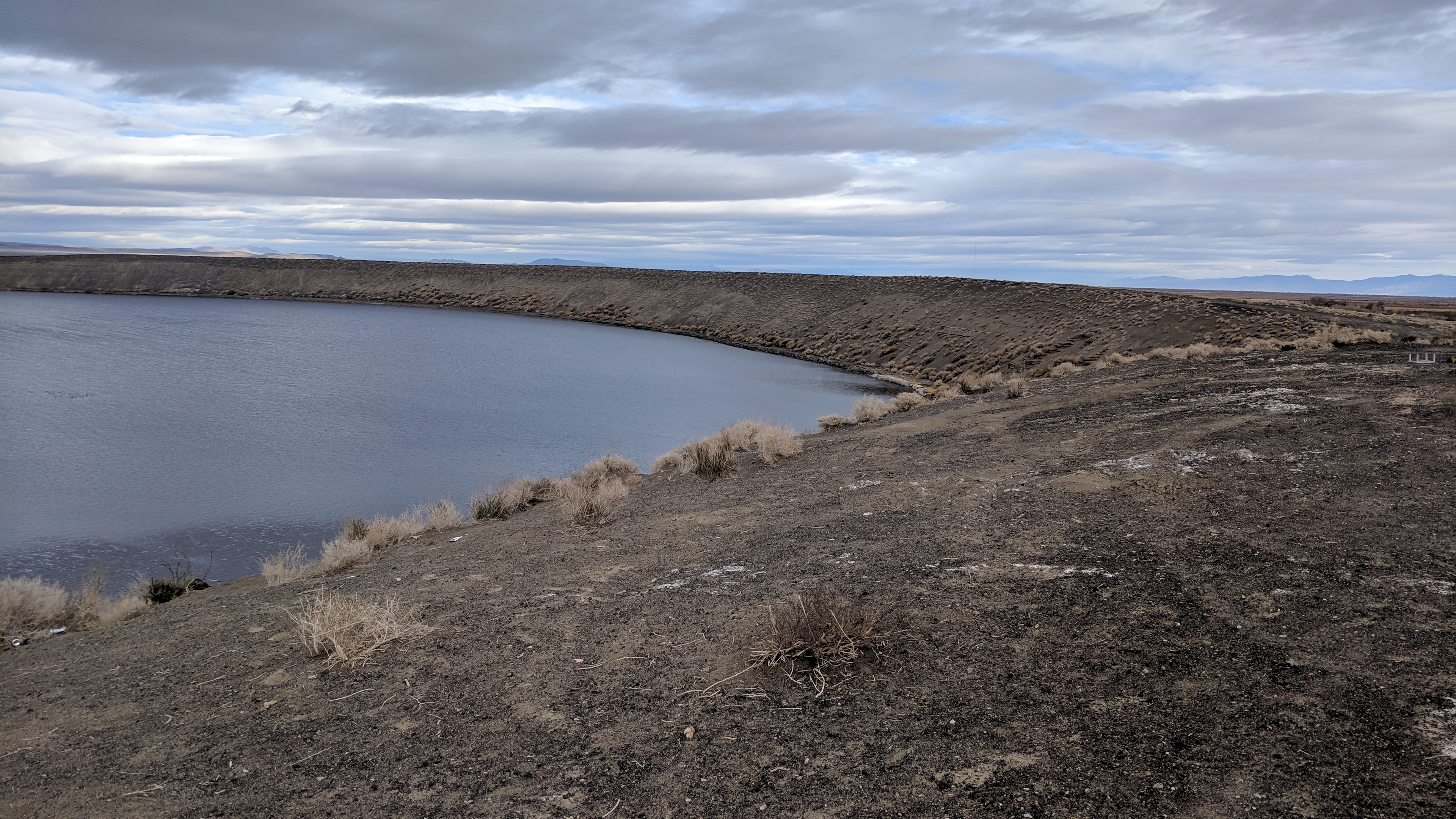 eastern rim of Big Soda Lake, a maar volcano near Fallon, Nevada